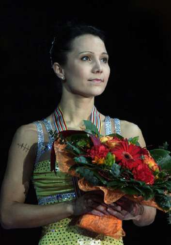 Susanna Pöykiö during the ladies medals ceremony at the 2009 European Championships.